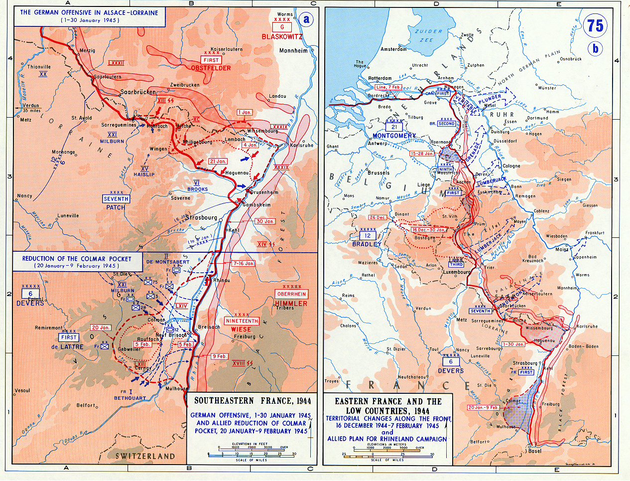 Operations map of German counter in Alsace Lorraine in January 1945. It is erronously titled "Southeastern France", when it actually shows the northeastern part of France.